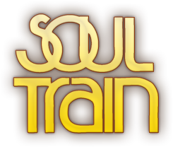 Title screen from Soul Train (TV show from the United States)